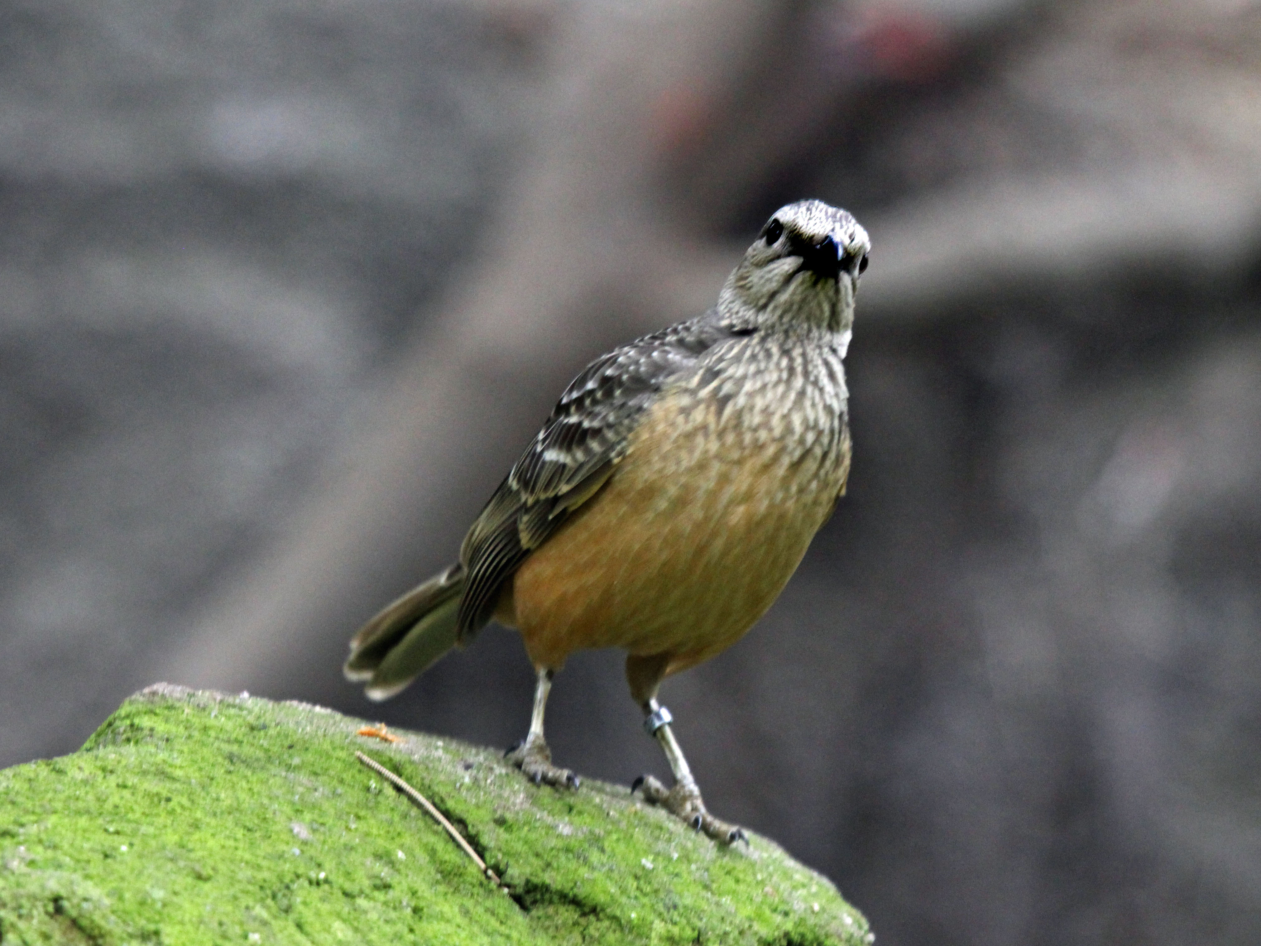 Fawn-breasted Bowerbird (Chlamydera cerviniventris) - San Diego Zoo